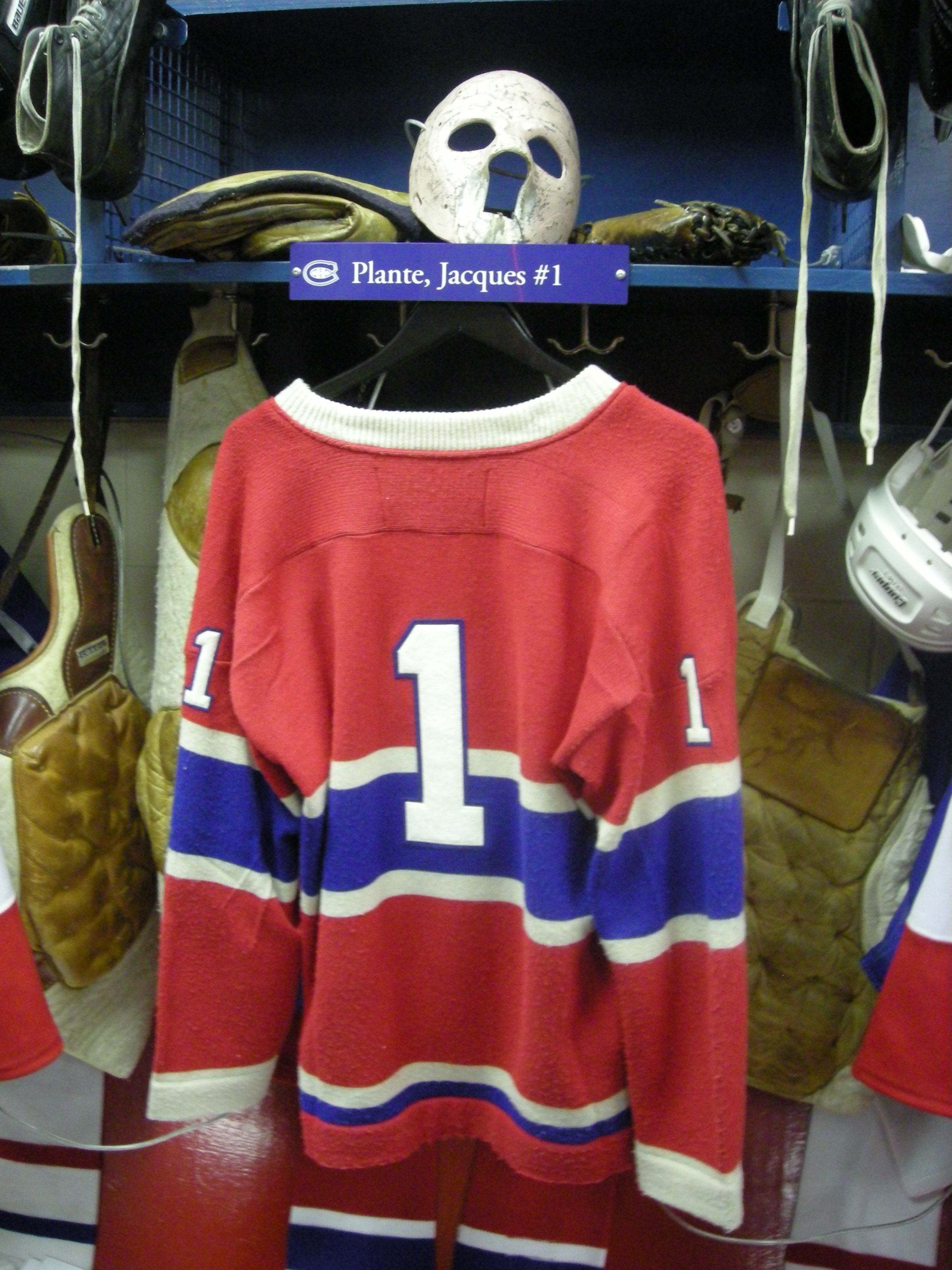 Jacques Plante's jersey and mask in the replica of the Montreal Canadiens dressing room at the Hockey Hall of Fame in Toronto, Ontario (Canada).